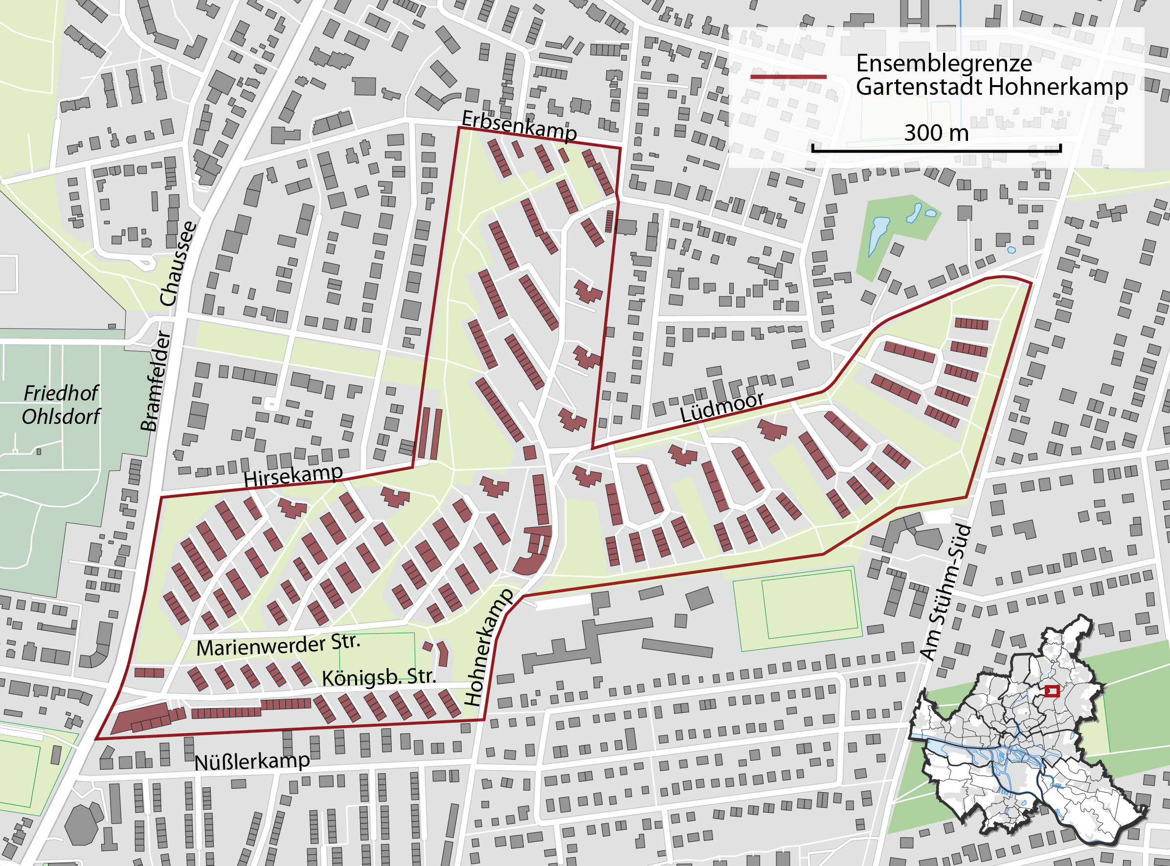 Map of Gartenstadt Hohnerkamp in Hamburg-Bramfeld